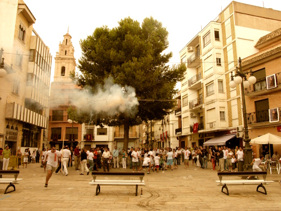 fire start of L'Alcúdia's traca quilomètrica in País Valencià square; pictured left, David Mateu, official carrier of the lighter